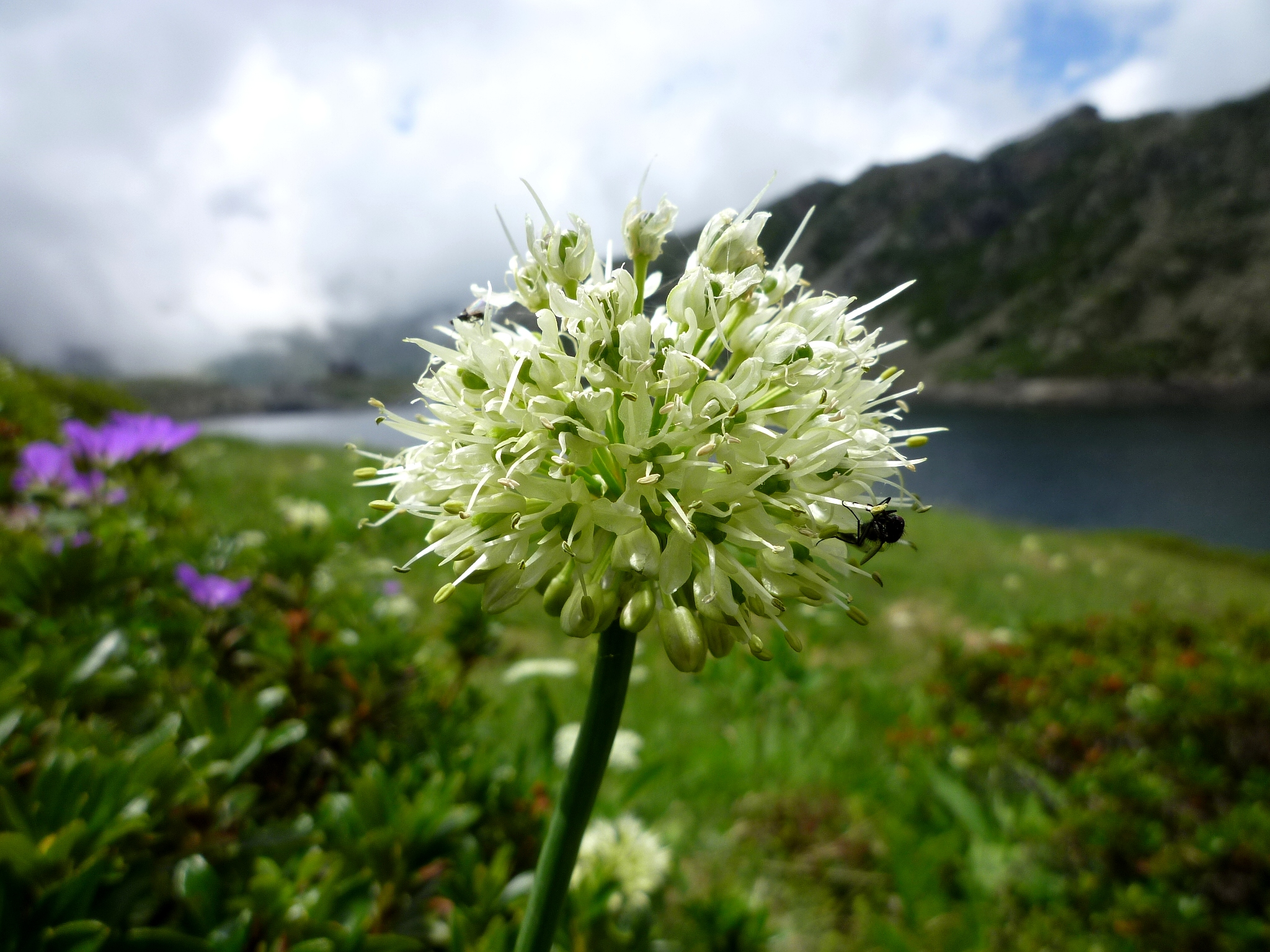 Allium victorialis. In Cabdella (Pallars Jussà - Catalunya. To 2.150 m altitude